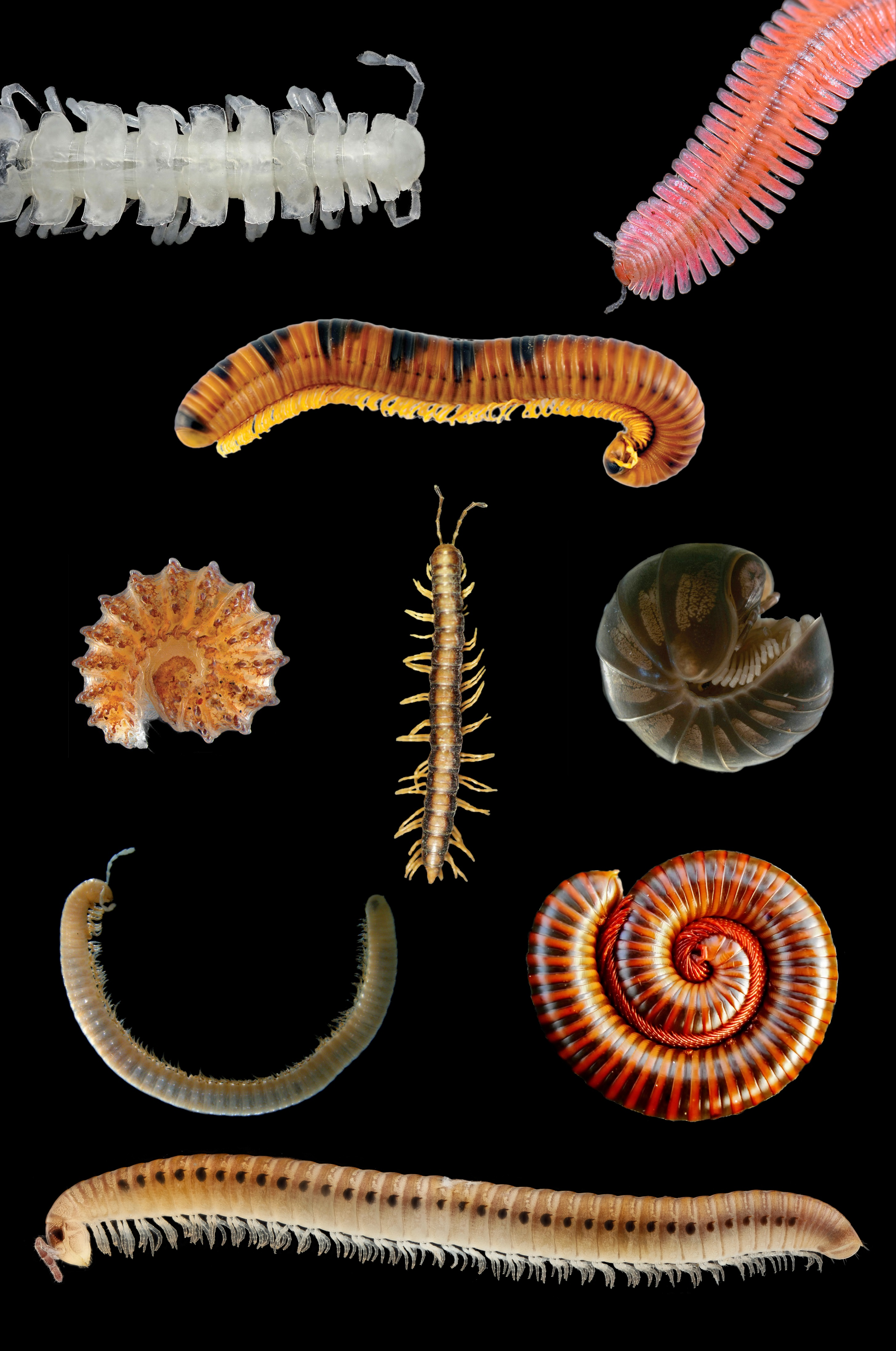 An assortment of millipedes (class Diplopoda). Photographs not to scale. Top row: Epanerchodus curtigonopus (Polydesmida, Polydesmidae); Brachycybe lecontii (Platydesmida, Andrognathidae). Second row: Sagmatostreptus strongylopygus (Spirostreptida, Spirostreptidae). Third row: Ammodesmus granum (Polydesmida, Ammodesmidae); Aponedyopus montanus (Polydesmida, Paradoxosomatidae); Glomeris sublimbata (Glomerida, Glomeridae) Fourth row: Titanophyllum spiliarum (Julida, Julidae); Unknown species (Spirobolida) Bottom: Unknown species (Julida, Nemasomatidae)